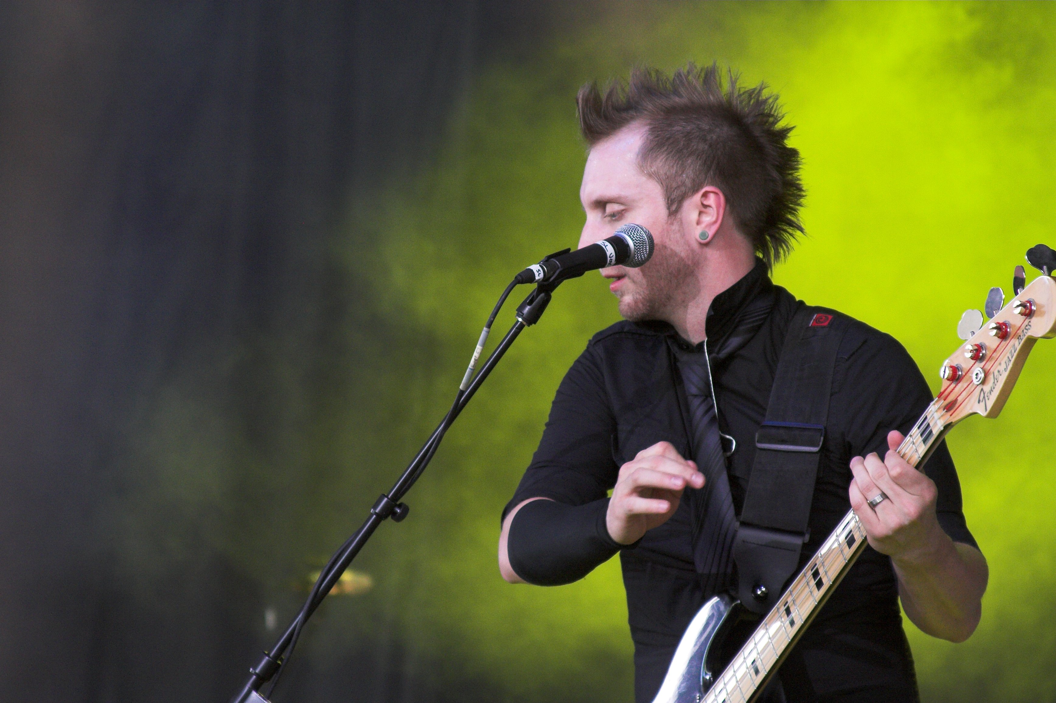 Joel Bruyere of Thousand Foot Krutch performing at Wonder Jam 2009.